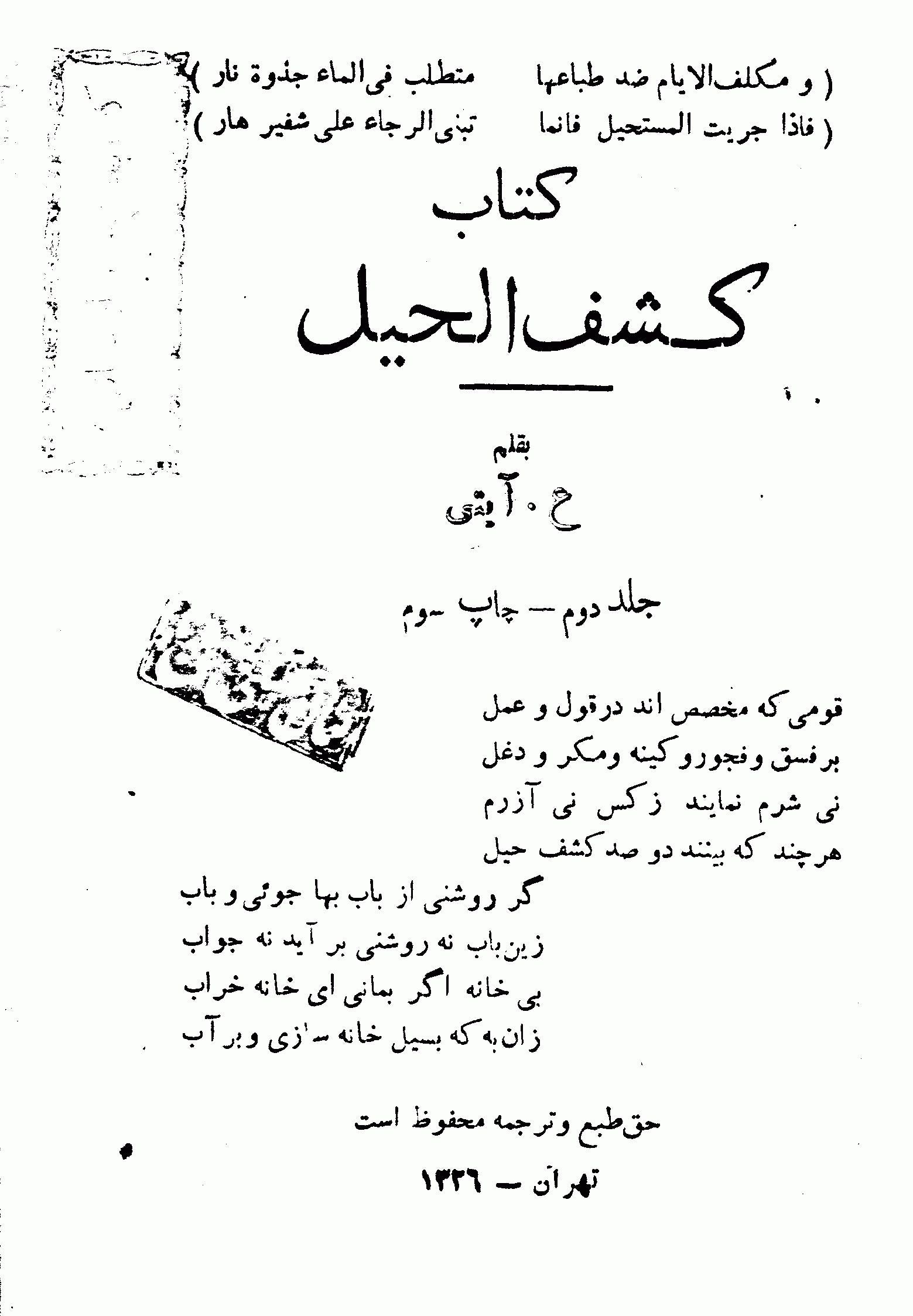 First page of Vol.2 "Kashf al-hiyal" by AblulHosein Ayati